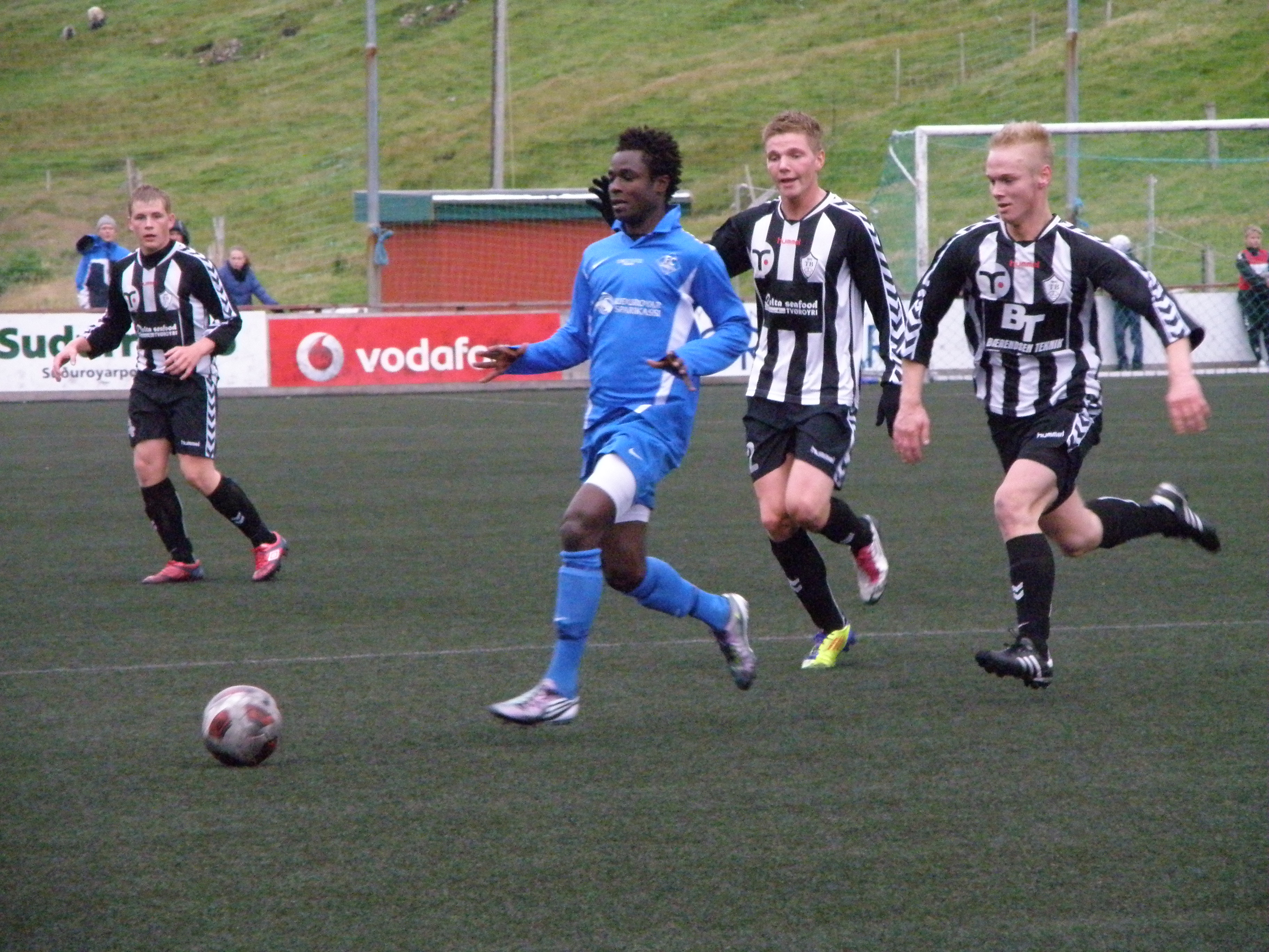 Football match in the Faroese second best division on 23 August 2011 between FC Suðuroy and TB Tvøroyri, both clubs are from the same island, Suðuroy, which is the southernmost of the islands of the Faroes. The player in blue is David Asare, a Ghanaian striker, who currently (2011 and 2012) is playing for FC Suðuroy. The other players in black/white are from left to right: Eirikur Magnusarson, Gilli Sørensen and Martin Tausen (TB Tvøroyri). Both these teams were promoted to the best division and play there the 2012 season. FC Suðuroy won 1. deild 2011 and TB was number two. Føroyskt: Fótbóltsdystur í 1. deild 23. august 2011 millum FC Suðuroy og TB. FC Suðuroy vann henda dystin 2-1. Bæði liðini fluttu upp í bestu deildina og spæla í Effodeildini í 2012. FC Suðuroy vann deildina og TB gjørdist nummar tvey. Leikarnir á myndini eru: David Asare (í bláum), og TB leikararnir eru frá vinstru: Eirikur Magnusarson, Gilli Sørensen og Martin Tausen.